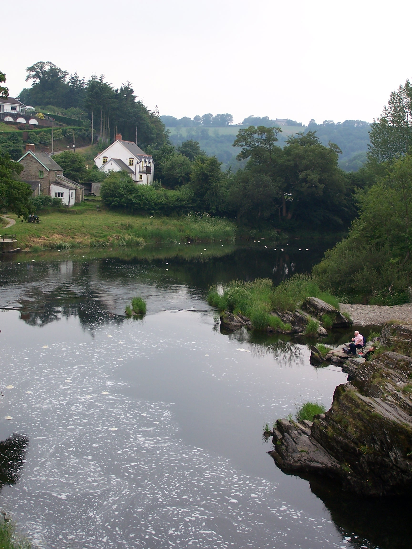 A view of the River Teifi near Cenarth, Ceredigion, West Wales.